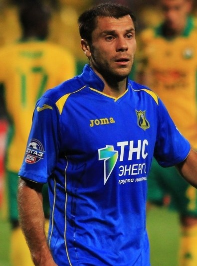 Timofei Kalachev 14